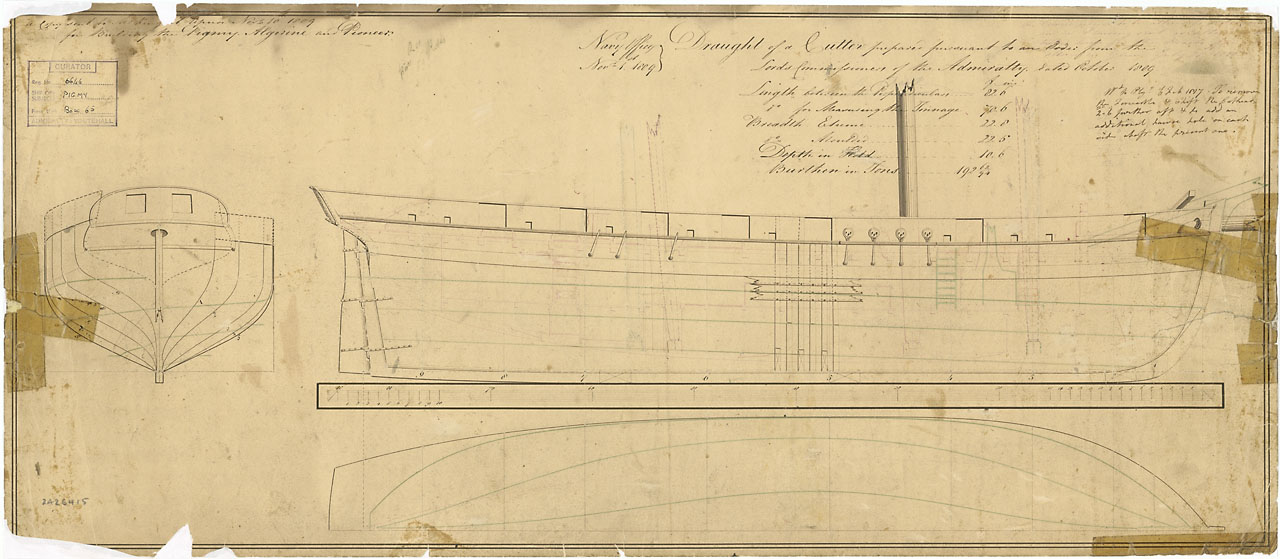 PIGMY 1810 lines & profile